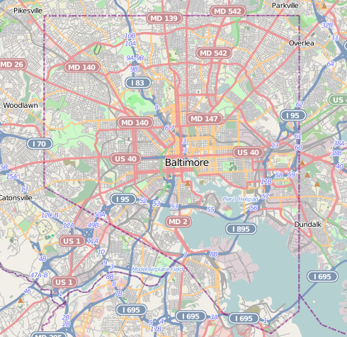 Map of Baltimore Geographic limits of the map: N: 39.3805° S: 39.1953° W: -76.7426° E: -76.4957°